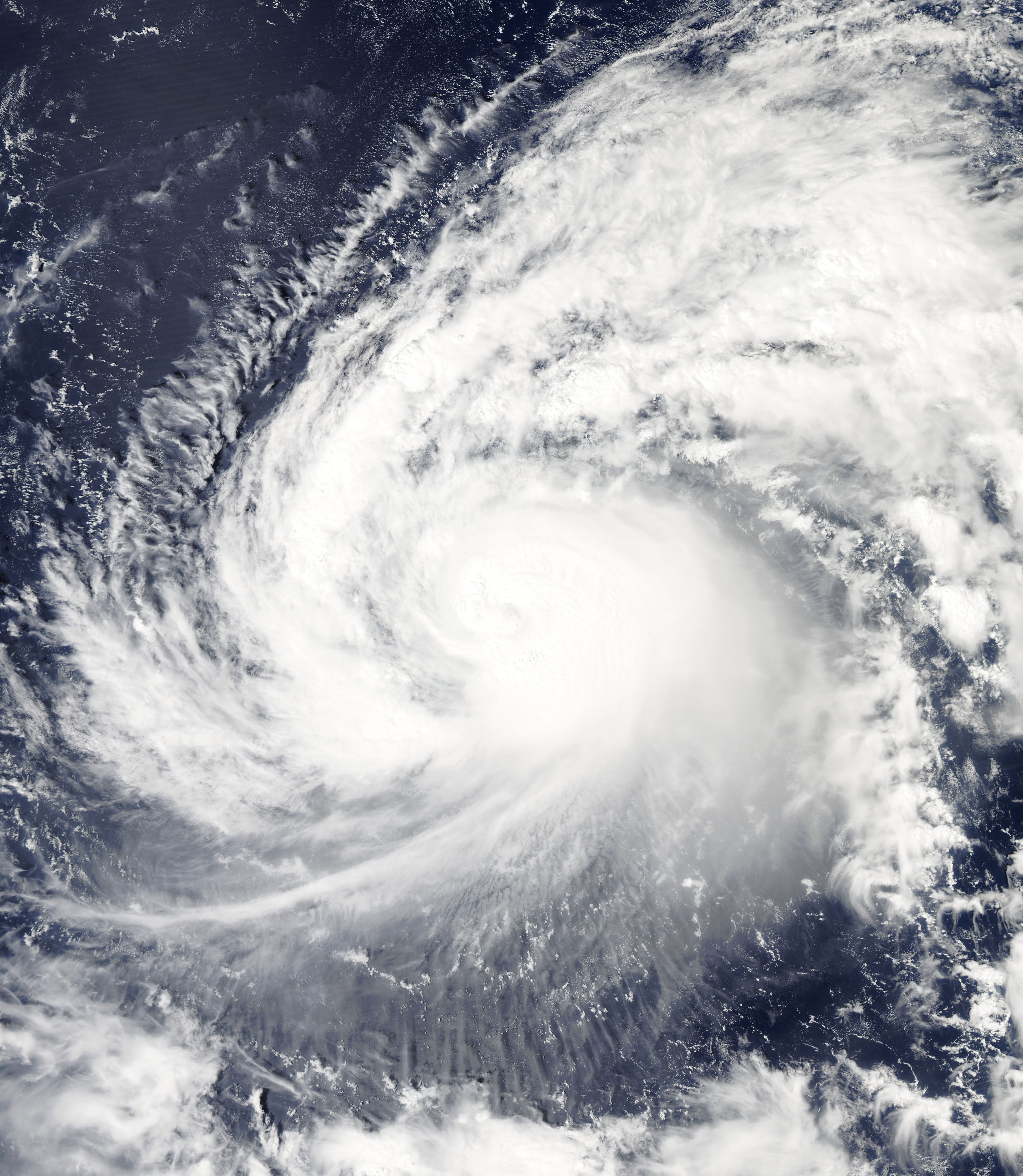 Typhoon Melor re-strengthening on October 3, 2009